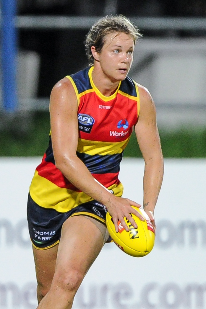 Courtney Cramey in the AFL Women's preseason match between the Adelaide Football Club and Fremantle Football Club on 20 January 2018 at TIO Stadium.